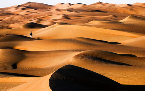 Oman desert